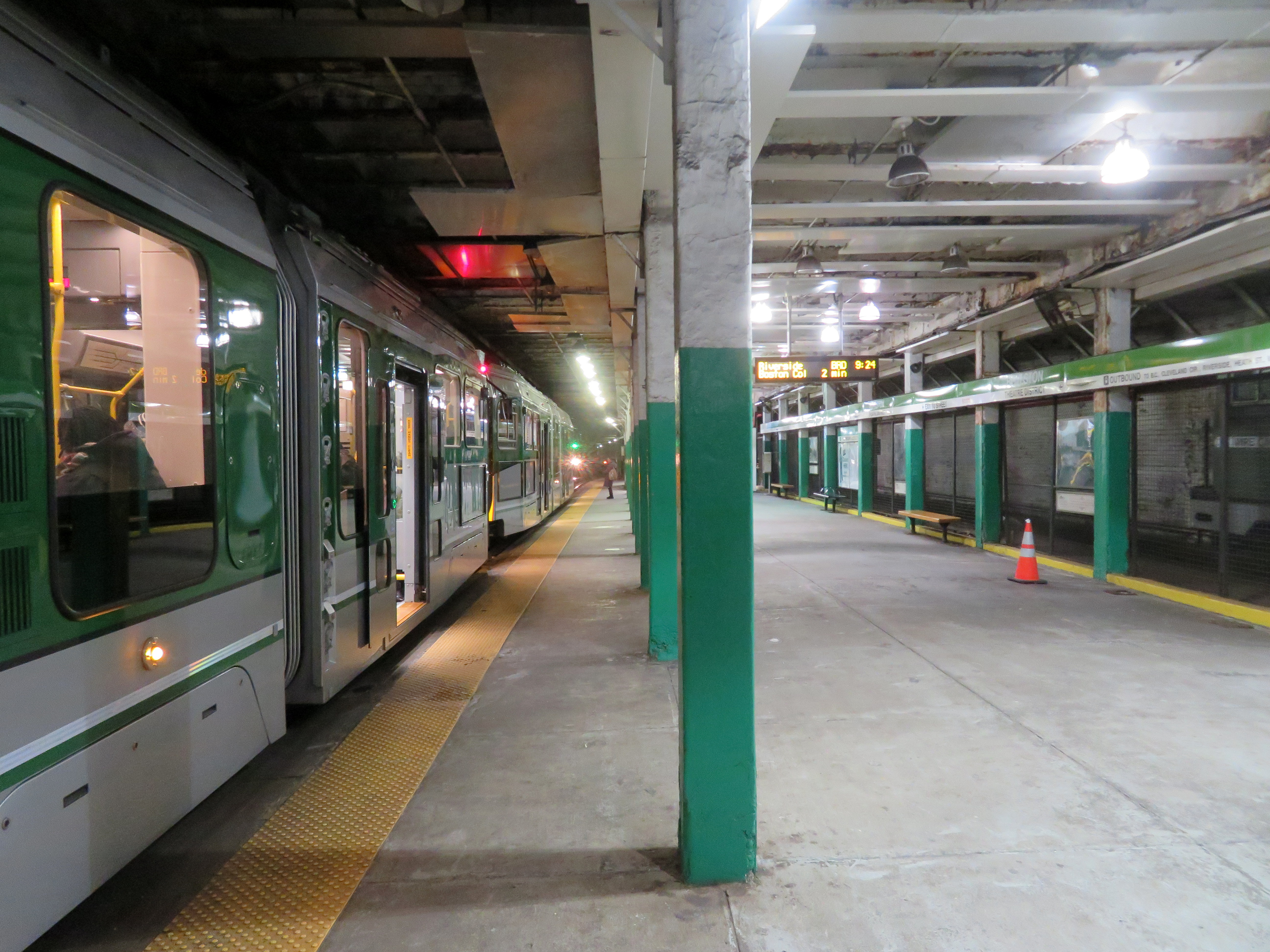 A pair of Type 9 LRVs at Boylston station in December 2019